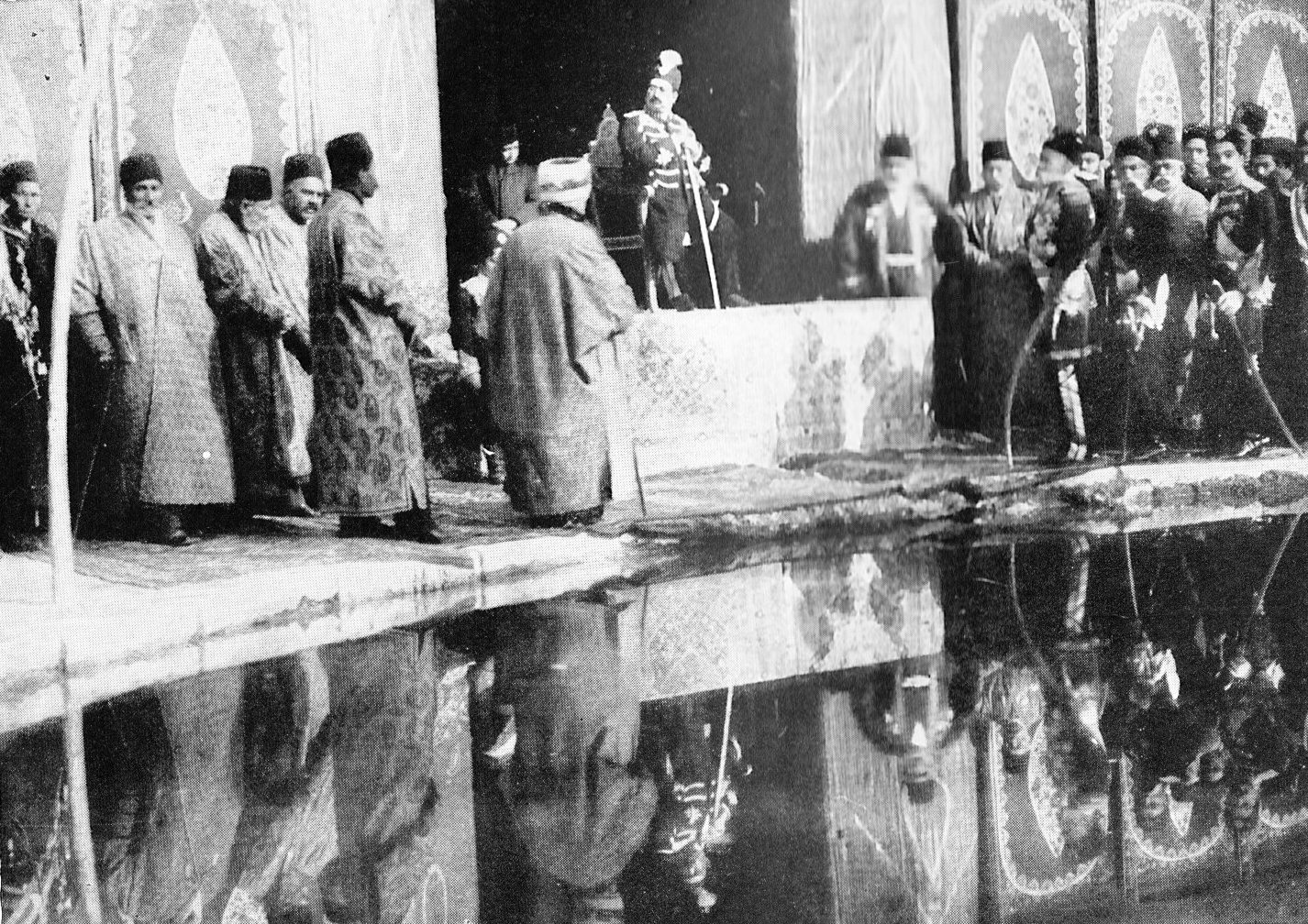 Mohammad Ali Shah and his suite, 1907